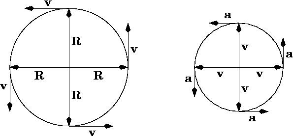 Two circles useful for deriving the centripetal acceleration.